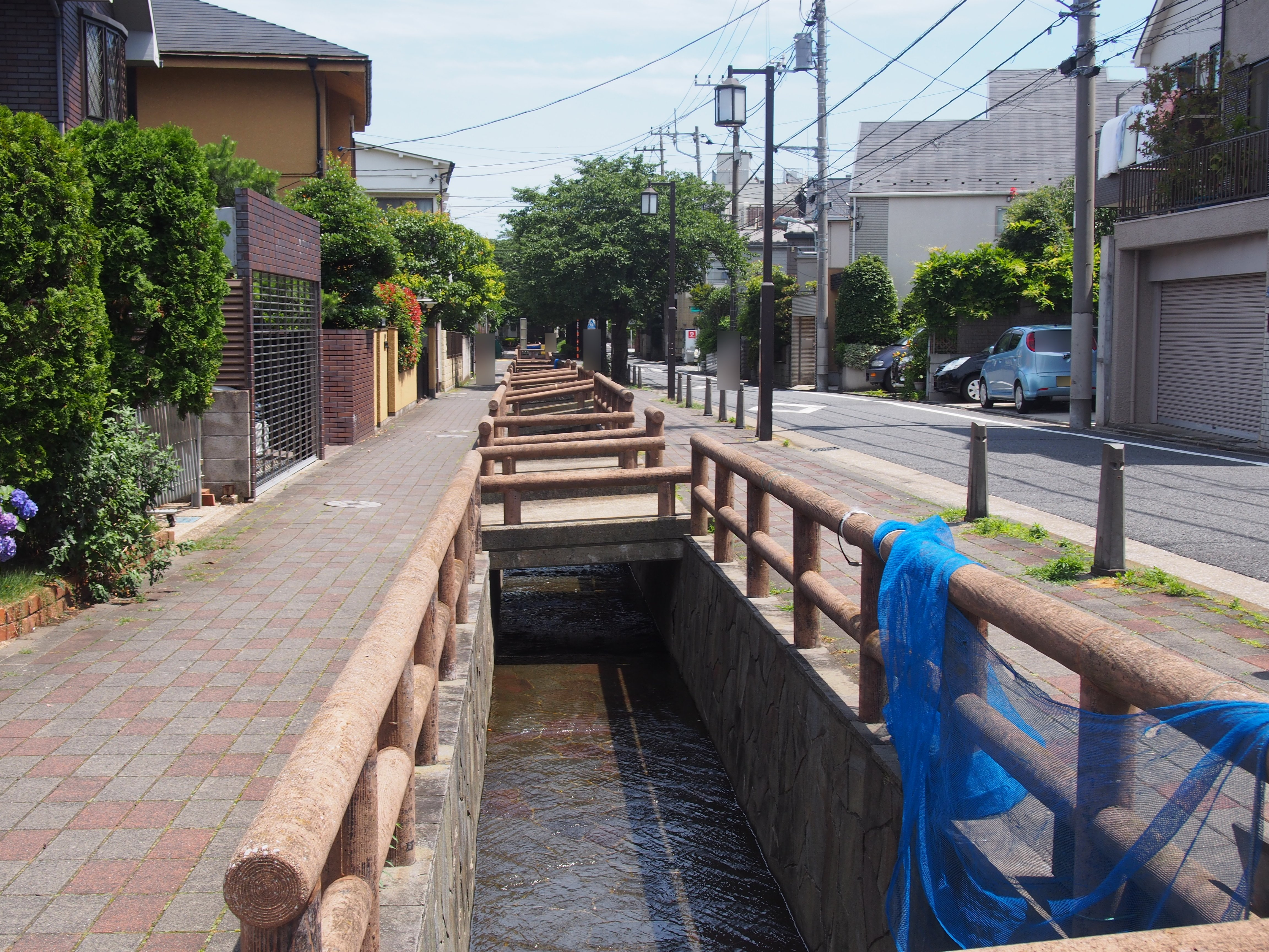 A photo of Senzoku Nagare(water channel),Ota-ku,Tokyo,Japan.